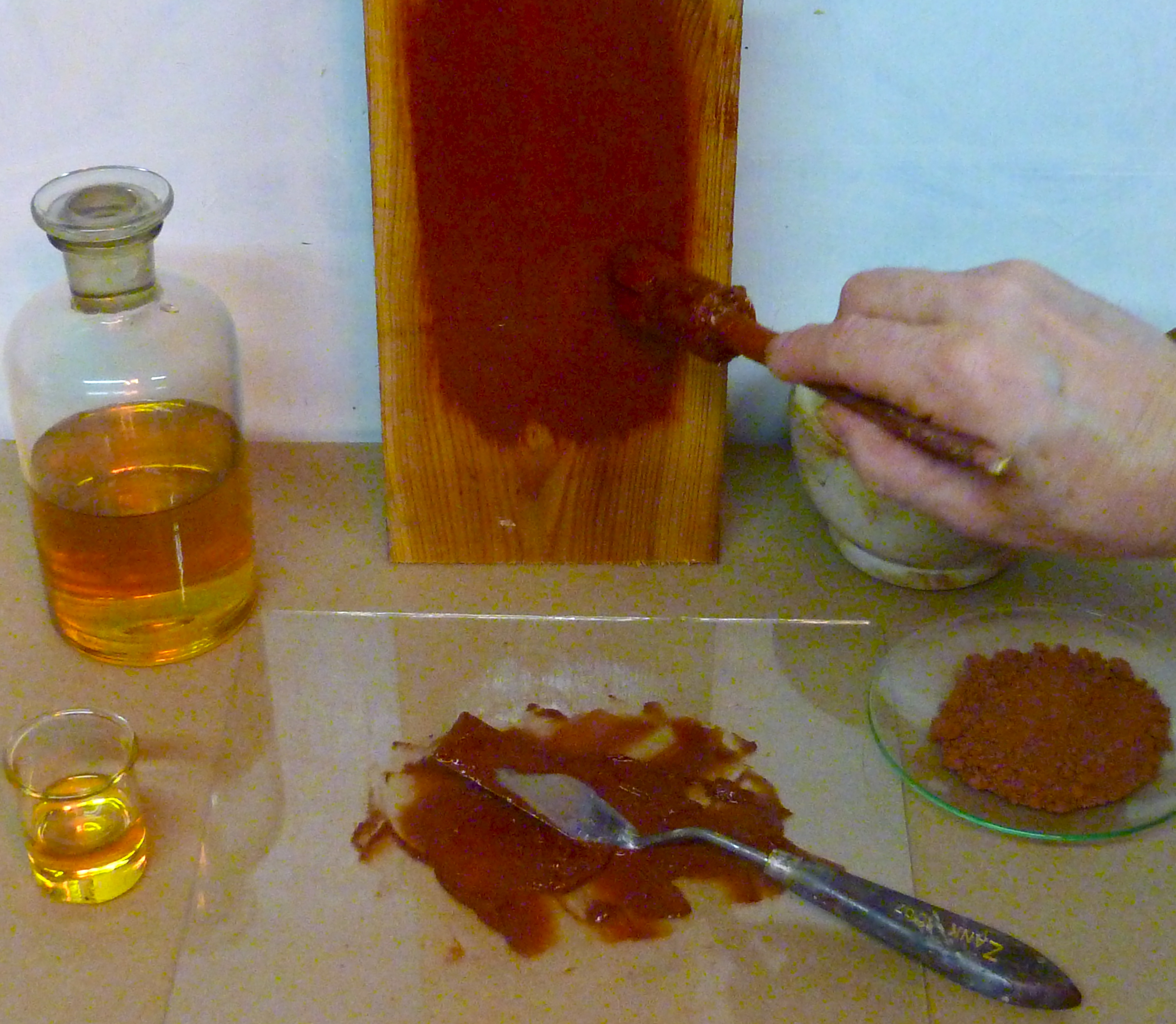 The essential components of pure linseed oil color as they are mixed together traditionally: cold pressed, purified and "boiled" linseed oil and ground dried clay earth pigment are thoroughly amalgamated. This paint dries within two days at normal temperature.